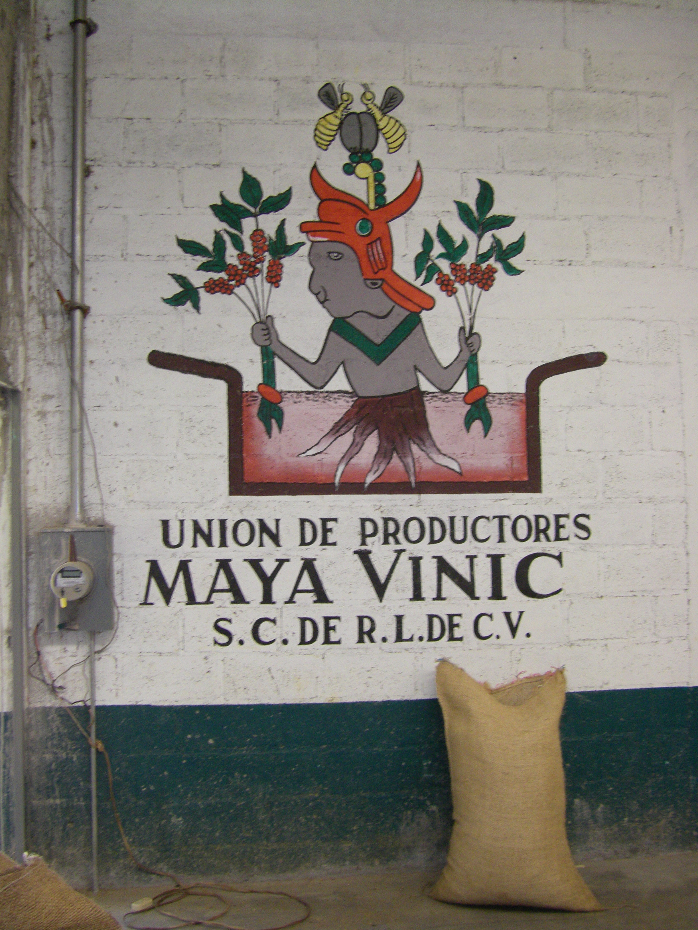 Picture of the logo for the Maya Vinic Union of Producers.